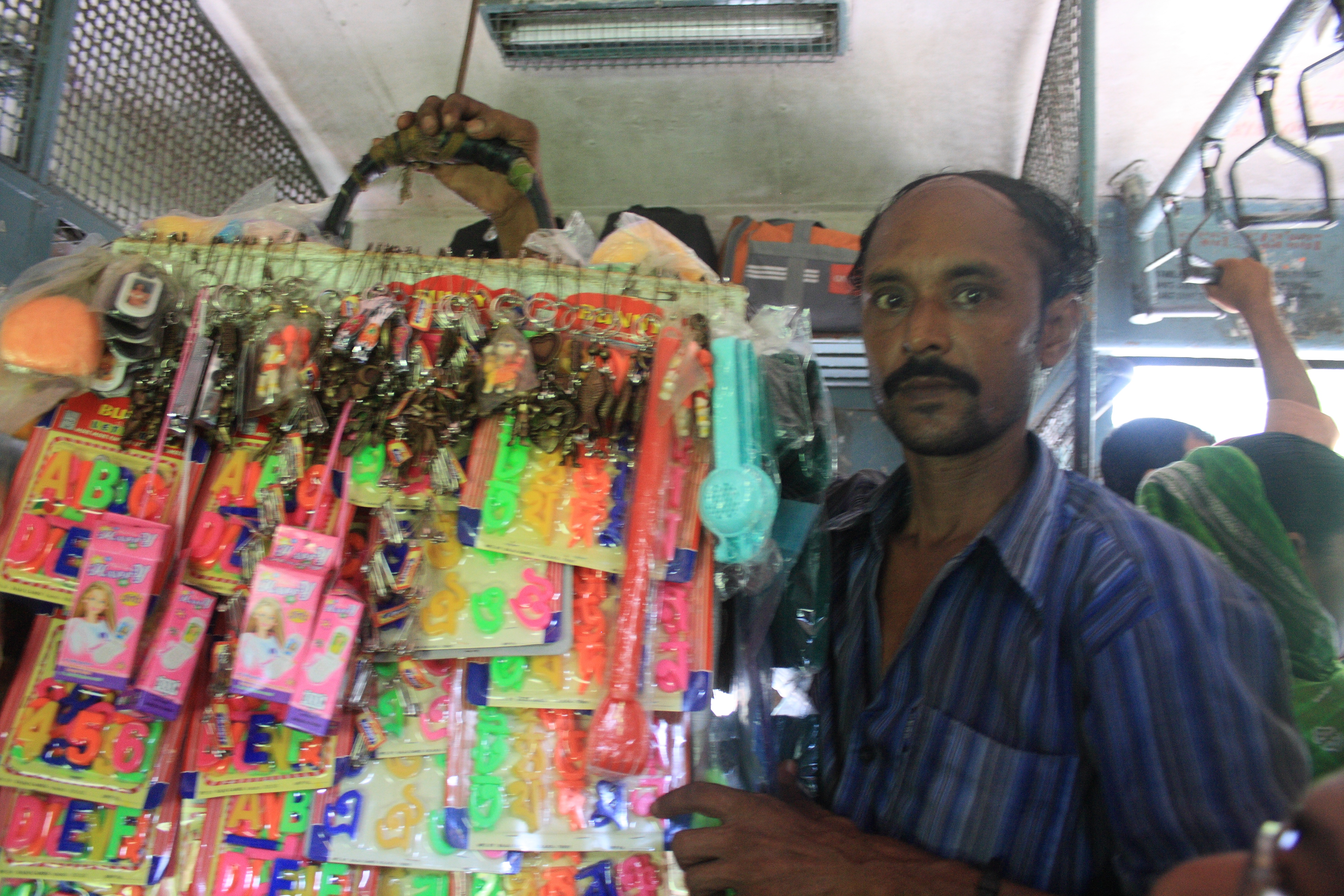 A vendor on a Kolkata local train en route from Barasat Junction to Hasanabad. Today's offer: Backscatchers, plastic letters and key fobs. To avoid carrying all his goods, he hooked everything up on a rod above.